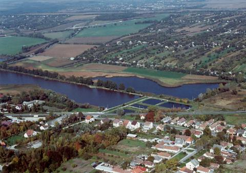 Bicske, Hungary, aerialphotography